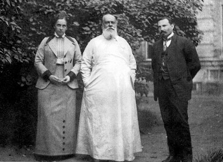 Archbishop Seraphin (Chichagov) in Tver, with his daughter Yekaterina and her husband